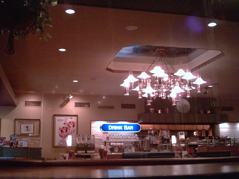 RoyalHost_Restaurant_japan photography day, 2006.11.10. photography person kici